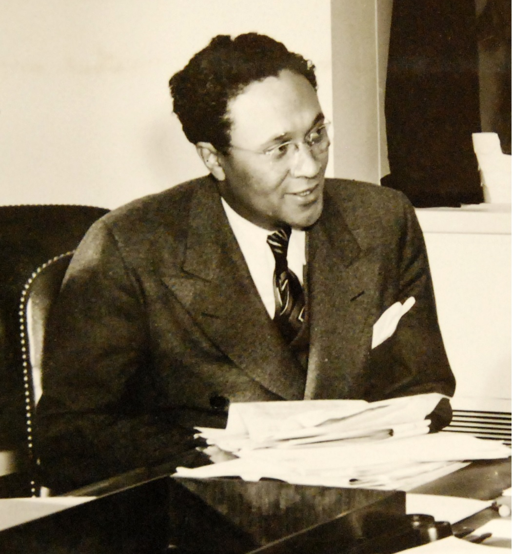 Alderman Earl B. Dickerson of Chicago, Illinois, a member of the President’s Committee on Fair Employment Practices Lot-1945-7: WWII-Homefront. Left to right: Ferdinand Smith, national secretary, National Maritime Union. He is from New York; Alderman Earl B Dickerson of Chicago, a member of the President’s Committee on Fair Employment Practices; and Donald M. Nelson, Chairman of the War Production Board. These two men came in on an appointment arranged by Phil Murray to present to Mr. Nelson, a plan for making fuller use of the African-American man-power in war production. Office of War Information. Courtesy of the Library of Congress. (2017/05/19).